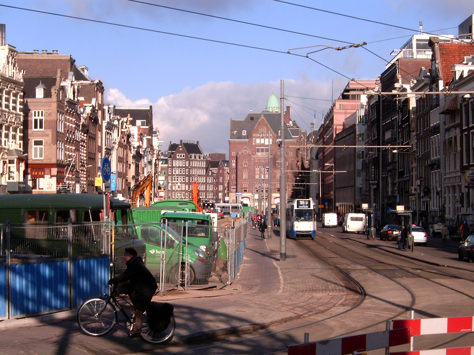 The Rokin, a street in Amsterdam